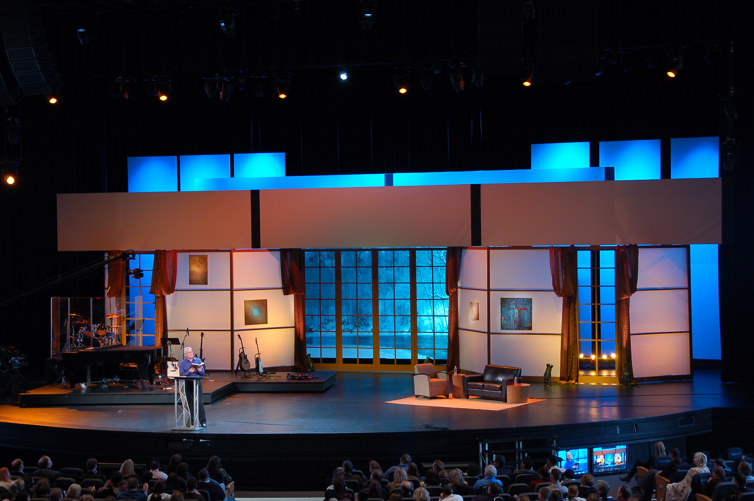 Scenic Design. At the beginning of this year a six week series began, discussing family issues, entitled, “The 2010 Family Series.” It was the first scenic set of the year and the most challenging set to finish due to the short time frame to complete. Normally, for our weekend series, we schedule seven weeks for designing and the construction process. There are times when seven weeks are not enough time to complete the process, especially when the first weekend set in January and Christmas set in December, compete for the same time. For each project, there are meetings with the producer and production team, discussing the content, special needs, values, concepts and approved design. The special needs discussed for this series was this; three guest speakers on three distinctive weekends; two of those would be interviews; large 15’ x 24’ center screen that would be used to display content for our teaching pastor and a 30’ x 18’ baptismal pool, used for baptisms. With both the center screen and the pool combined, 57 feet of space is needed. With the information discussed in our meetings the designer begins the process of creating ideas for a scenic design that will create a positive experience for the audience. The design would most likely support the content of the subject but there are times when that may not be practical.